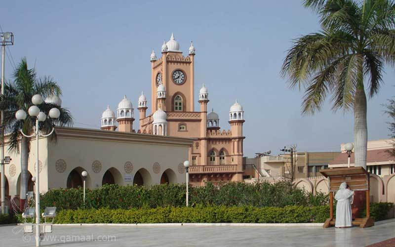 Saifee Tower from Roza Jamnagar